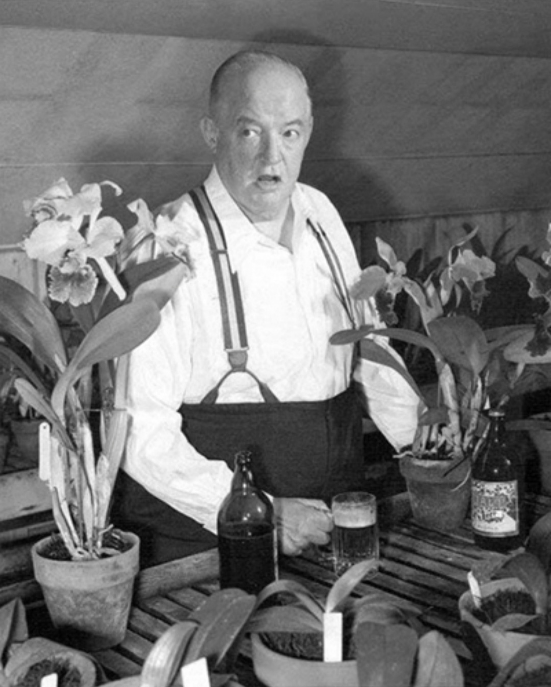 Publicity photograph of Sydney Greenstreet as Nero Wolfe in the 1950–51 NBC radio series The New Adventures of Nero Wolfe